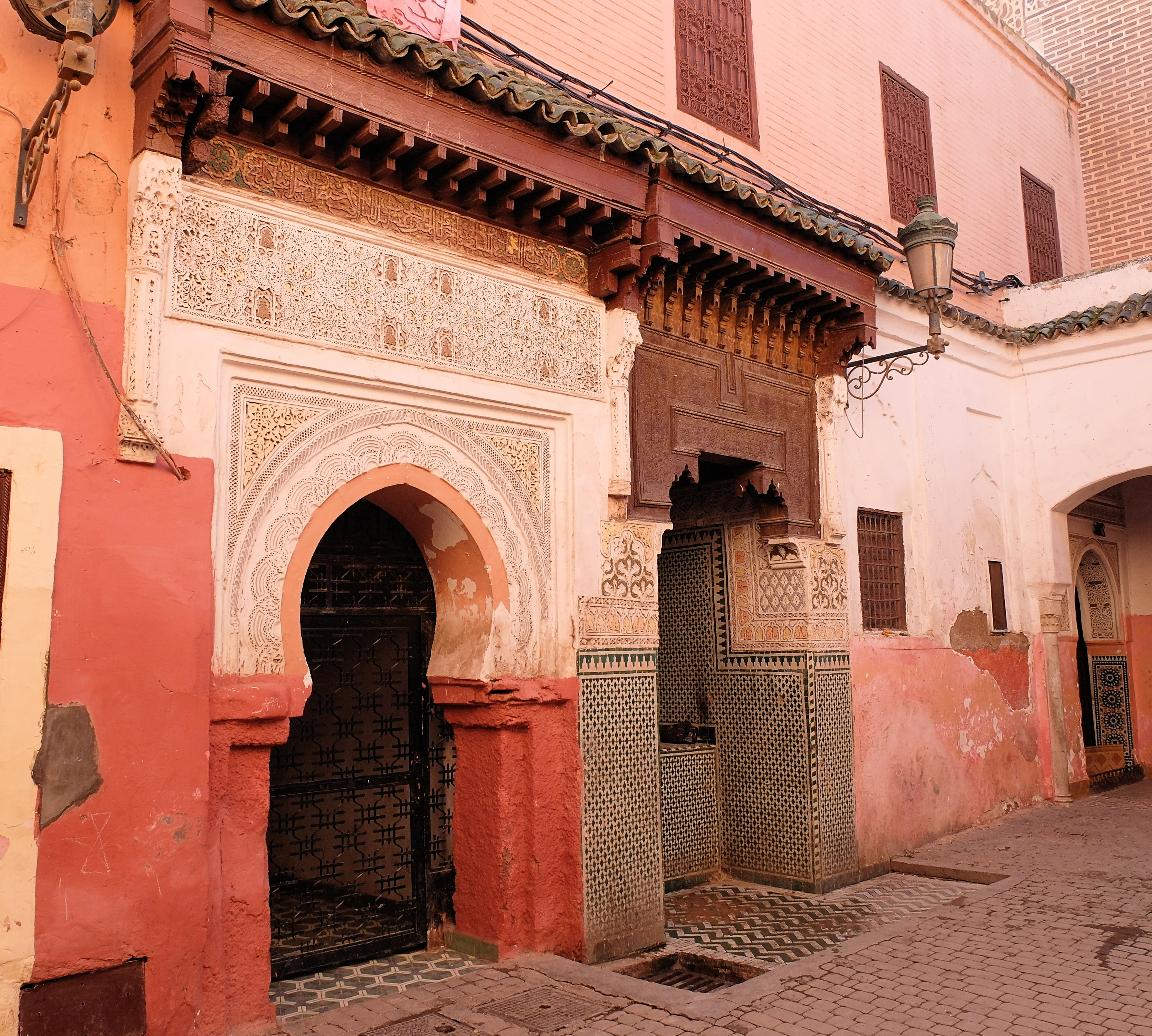 Northern side of the Zawiya of Sidi Muhammad Ben Slimane al-Jazuli. View of the street fountain (arch on the middle right) and another decorated archway or doorway to the left.